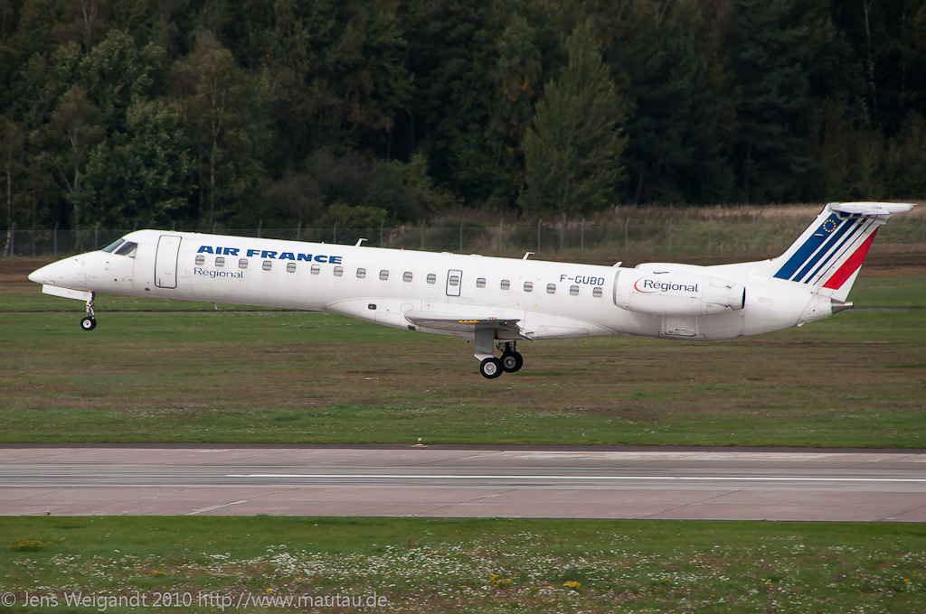 ERJ-145. At EDDV (Hannover Airport) according to Flickr tag.